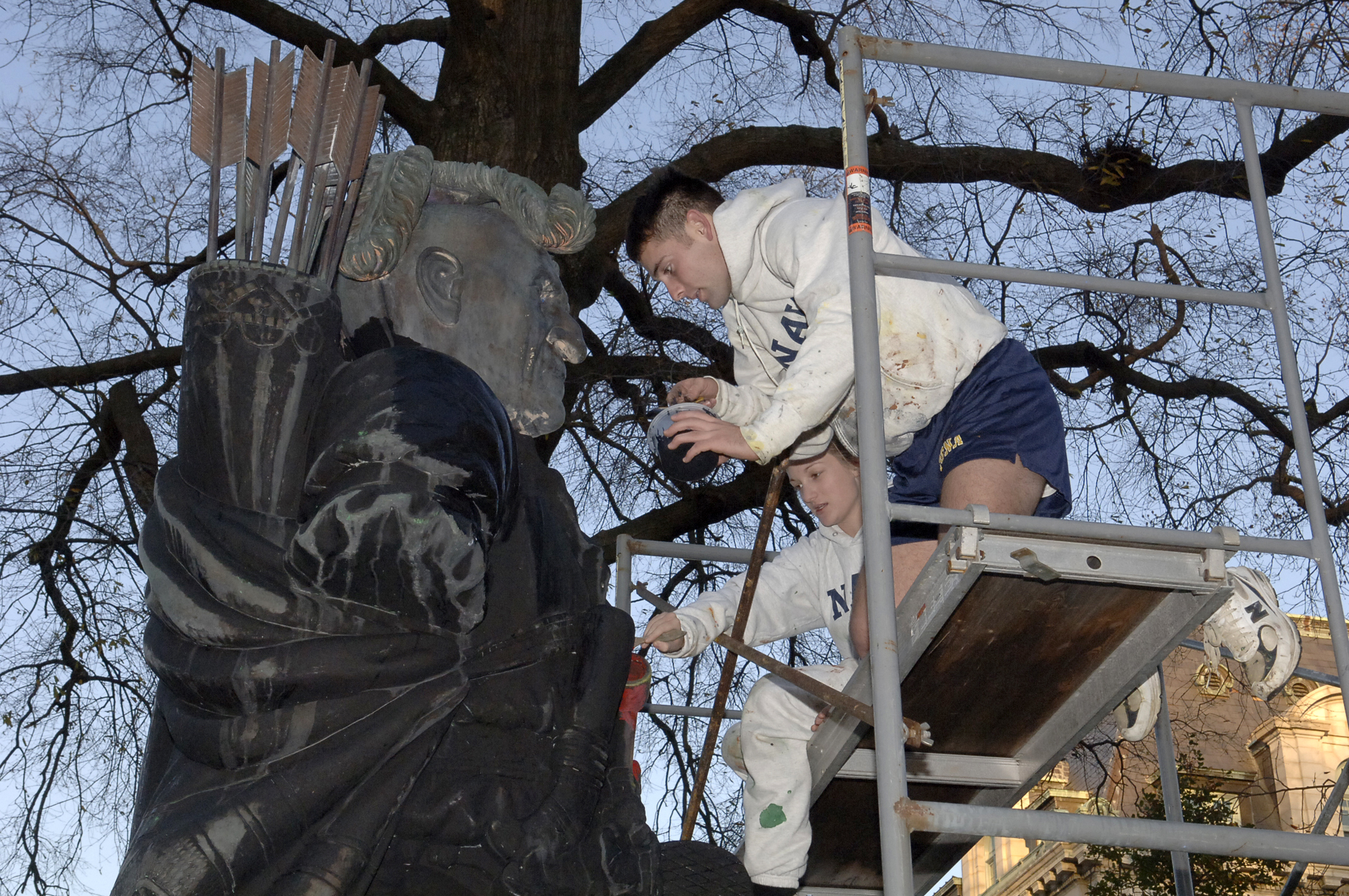 U.S. Naval Academy, Annapolis, Md. (Nov. 30, 2005) – U.S. Naval Academy Midshipman Lauren Eanes and Midshipman Kevin Omalley paint the statue of Tecumseh on board the U.S Naval Academy in Annapolis, Md. Tecumseh sits in front of Bancroft Hall, the dormitory where the Brigade of Midshipmen resides. Midshipmen of the 9th Company paint the statue before Naval Academy football games and on special occasions. U.S. Navy photo by Mr. Ken Mierzejewski (RELEASED)